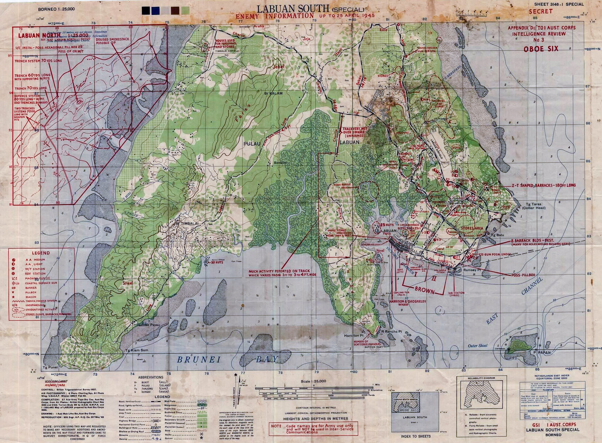 An Allied map of the southern portion of Labuan Island in modern Malaysia, marked with the positions which Allied intelligence believed that the island's Japanese garrison was occupying as at April 1945